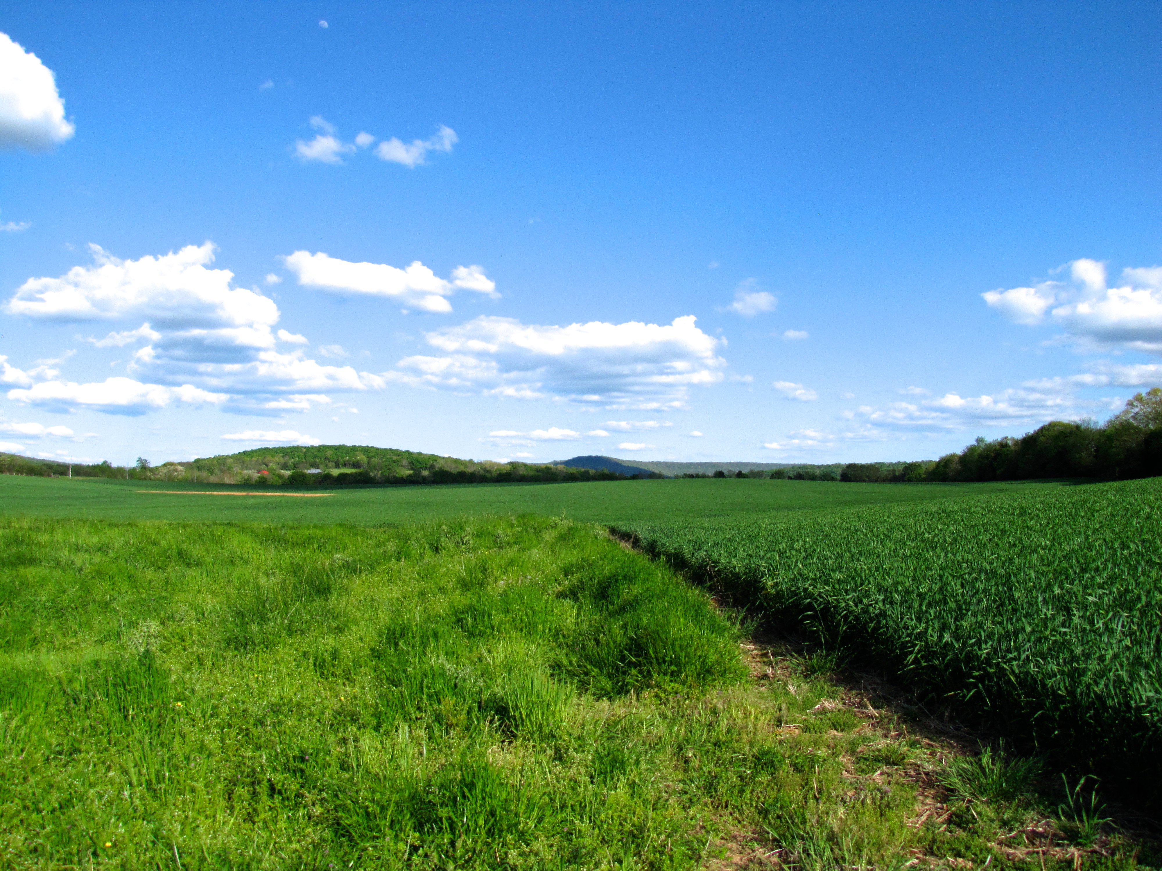 Farm fields near New Market in Madison County, Alabama, United States.